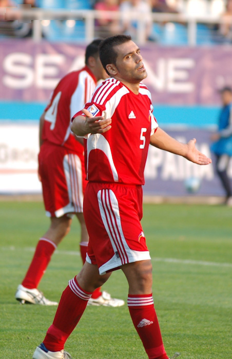 Fernando Silva, Andorran footballer, during the game Ukraine vs Andorra